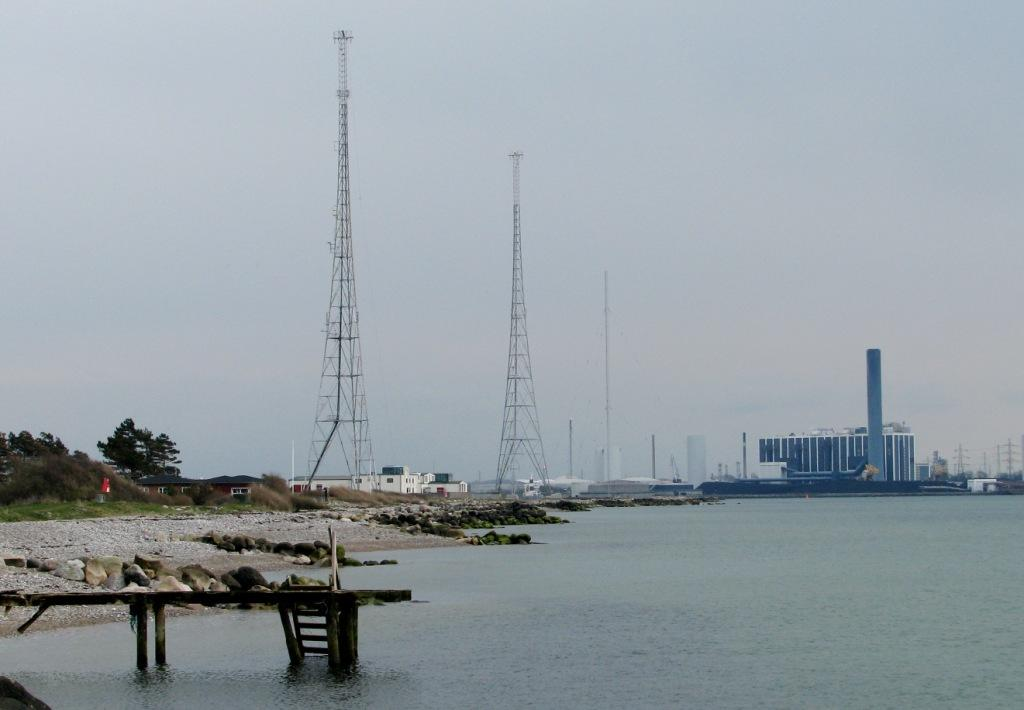 Kalundborg Transmitter Site after renewal of longwave towers (mediumwave tower in background)